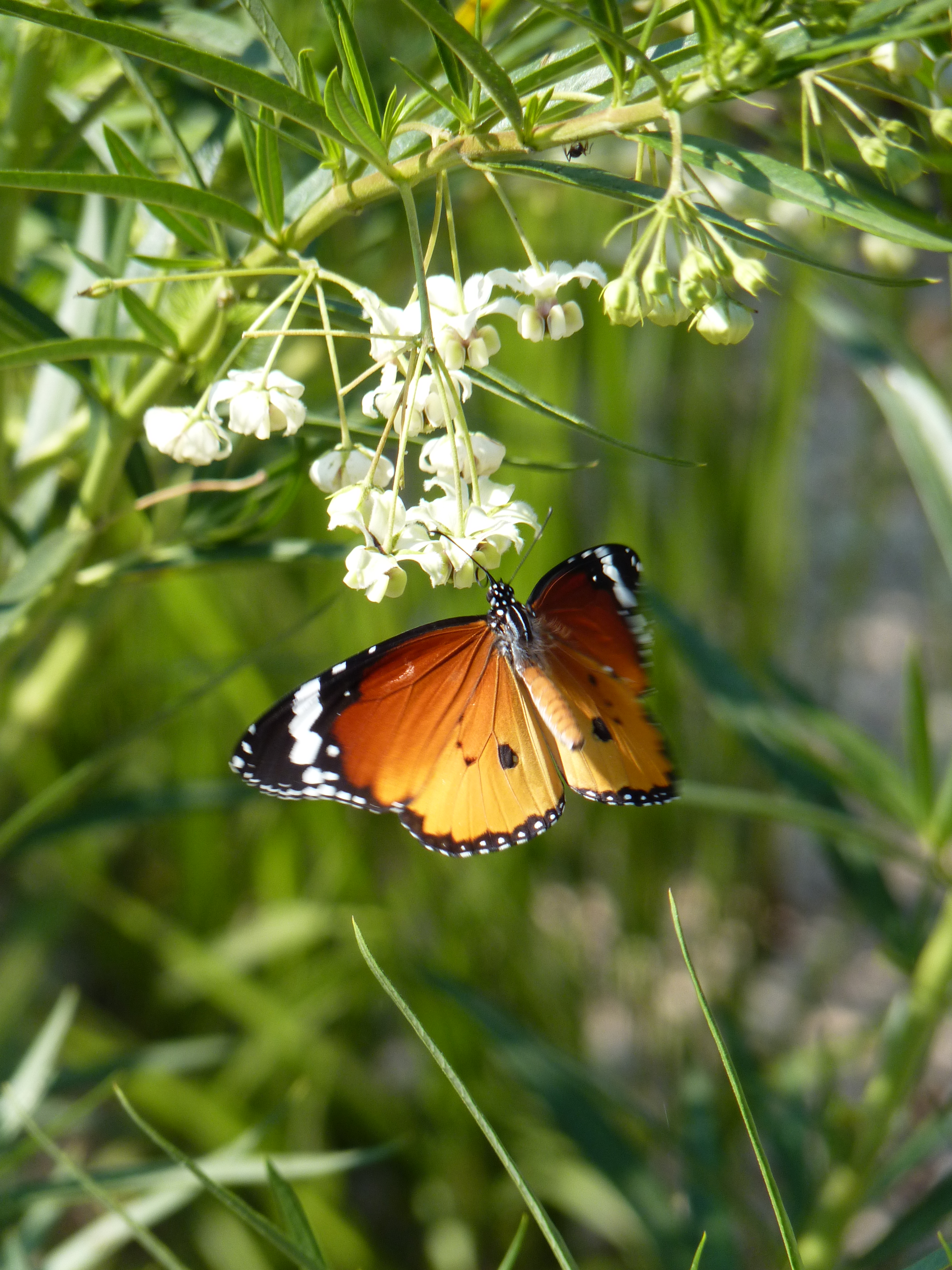 Gomphocarpus fruticosus with Danaus chrysippus - Perdika, Greece